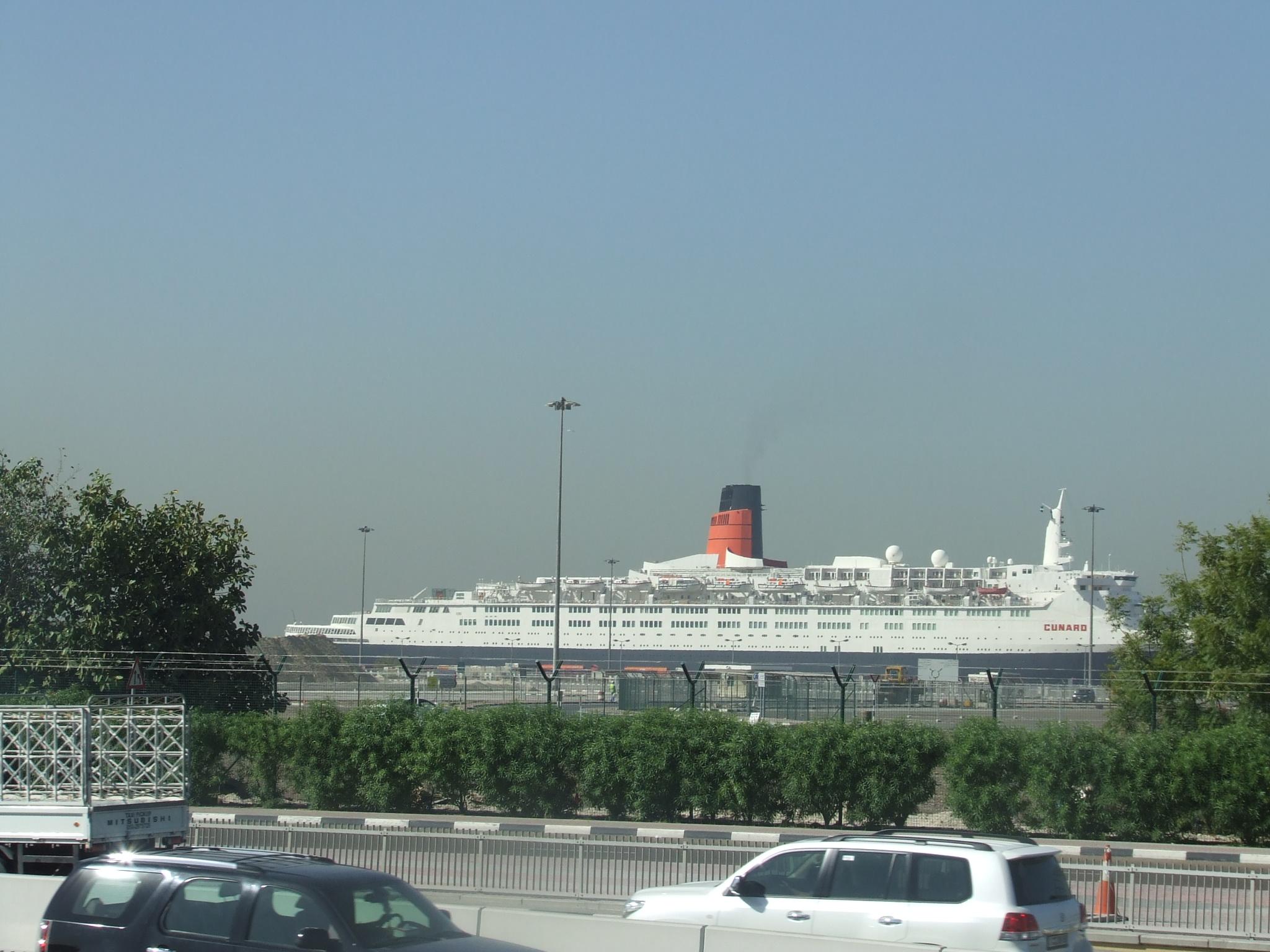 Recently retired Cunard Liner Queen Elizabeth 2 awaiting refurbishment in Dubai